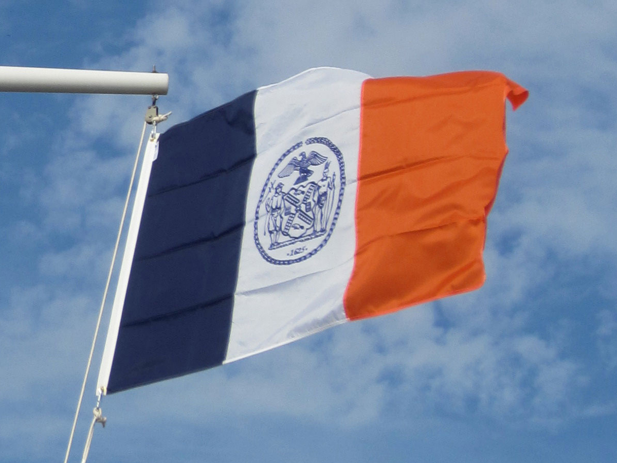 The Flag of New York City, flying from a yardarm in Battery Park in Manhattan.